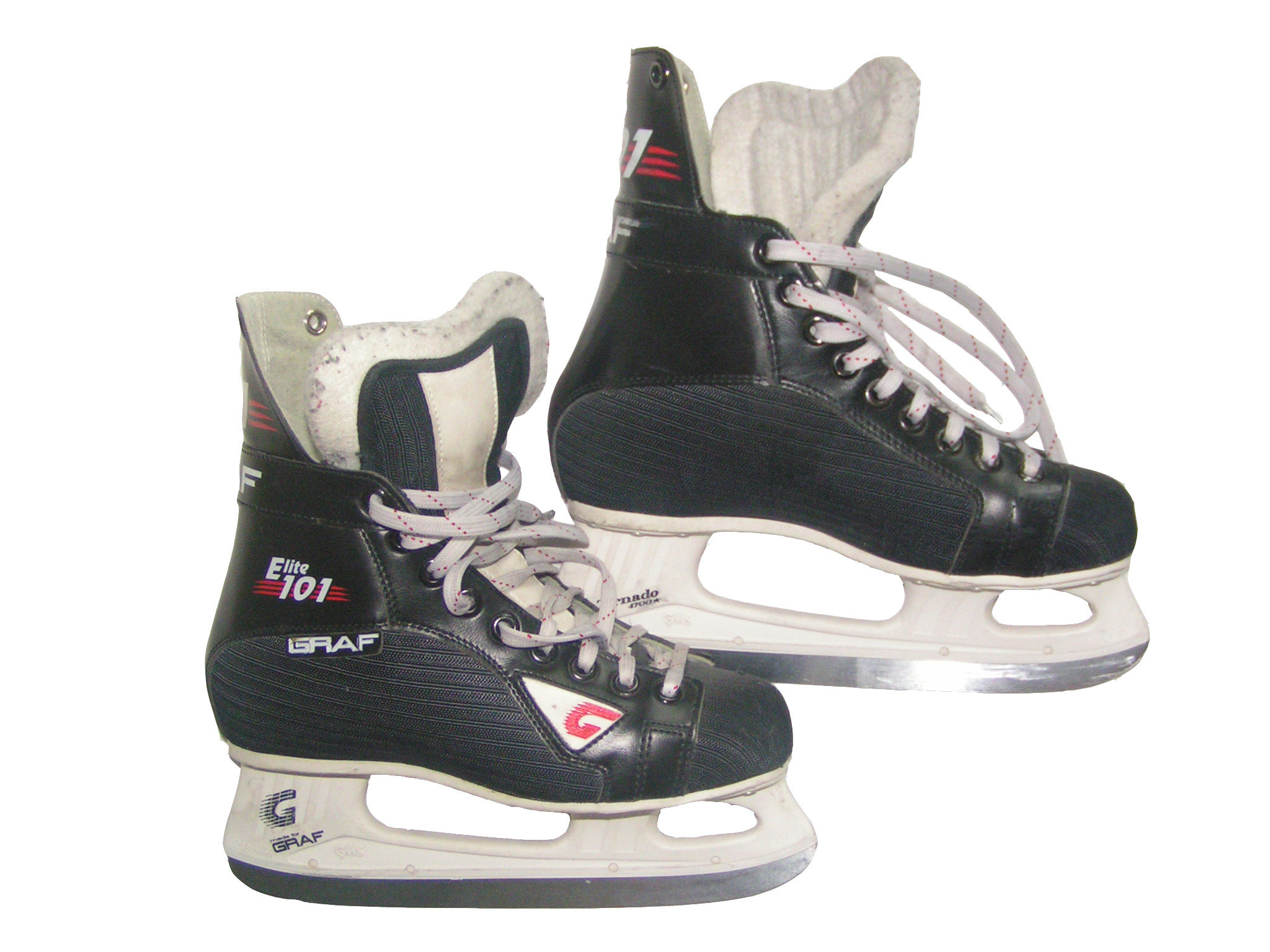 amateur ice hockey skates Worn by all american goalie, Tommy!